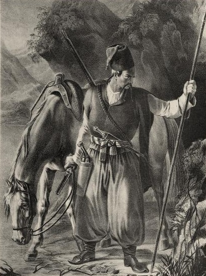 Zaporizhian Cossack, 18 century.